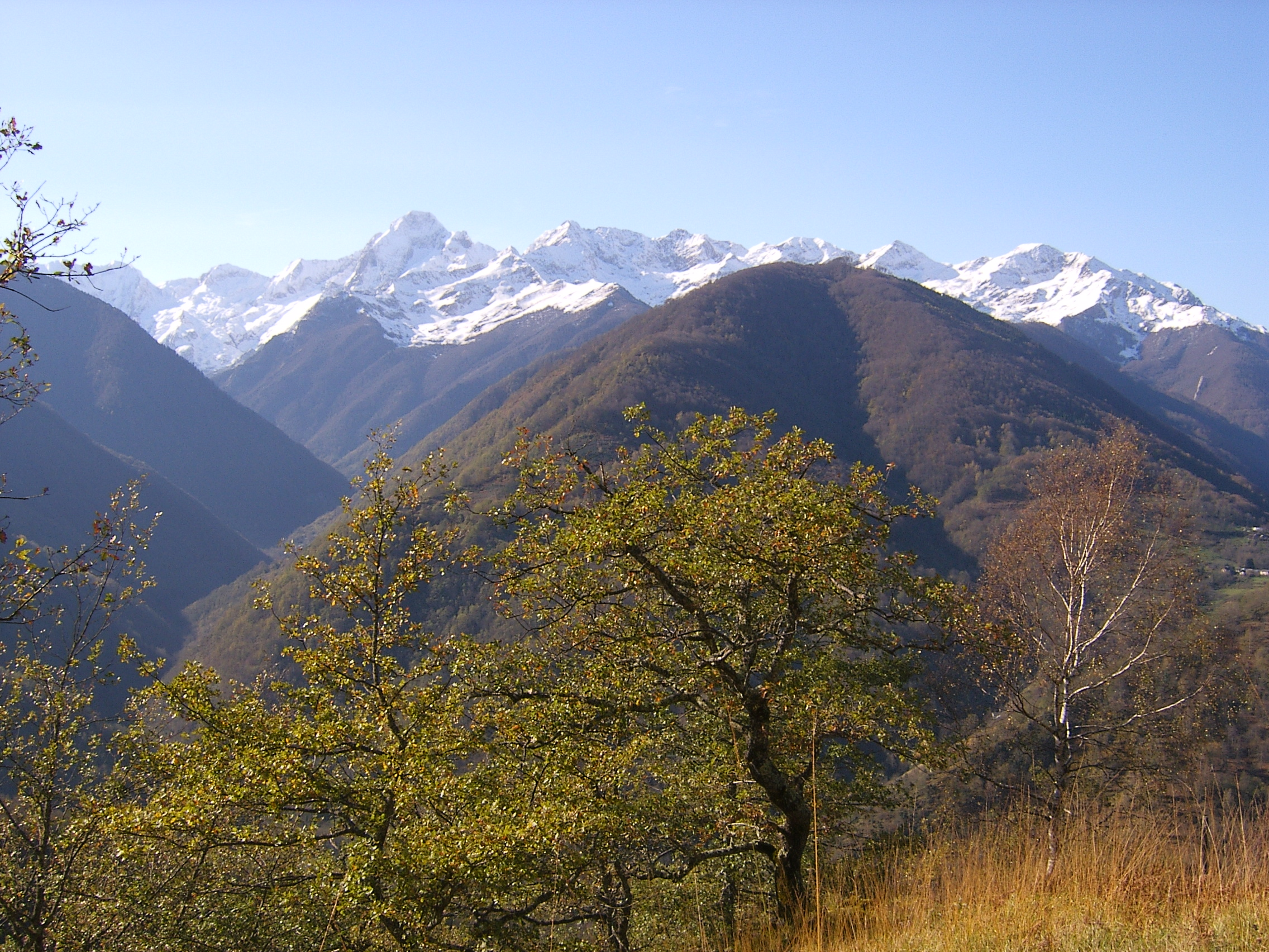 A view near Mirabat castle, before the first snows. Ariège, France.